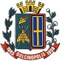 Brasão de Dolcinópolis